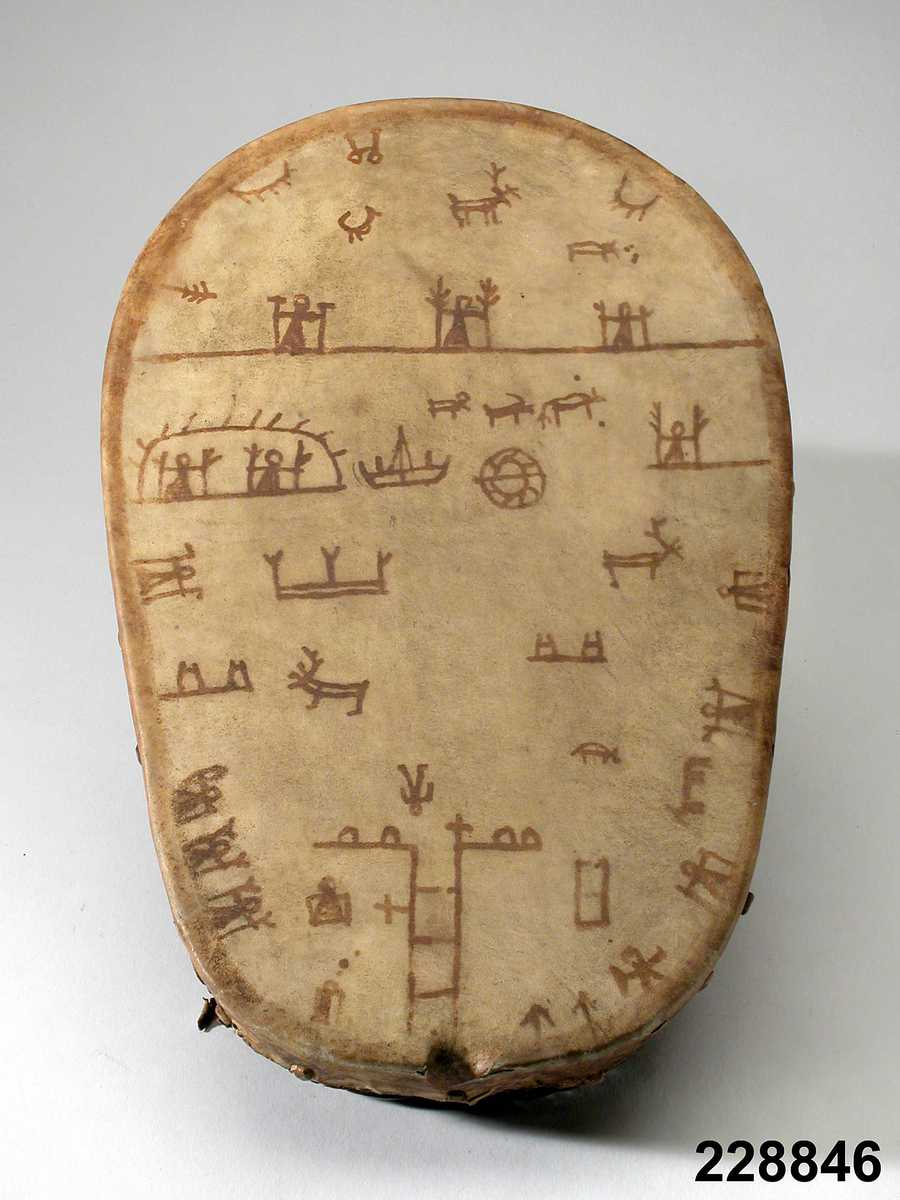 Sami drum, probably from Lule Lappmark. Bowl drum. 40 x 27 cm. Described and depicted by Johannes Schefferus in his book Lapponia (1671); later described as No 64 in Ernst Manker's Die lappische Zaubertrommel (1938). Schefferus says that it belonged to chancellor Magnus Gabriel de la Gardie; later in 1693 in Antikvitetskollegium. Statens Historiska Museum, Stockholm (SHM 360:2) Now at Nordiska museet, Stockholm